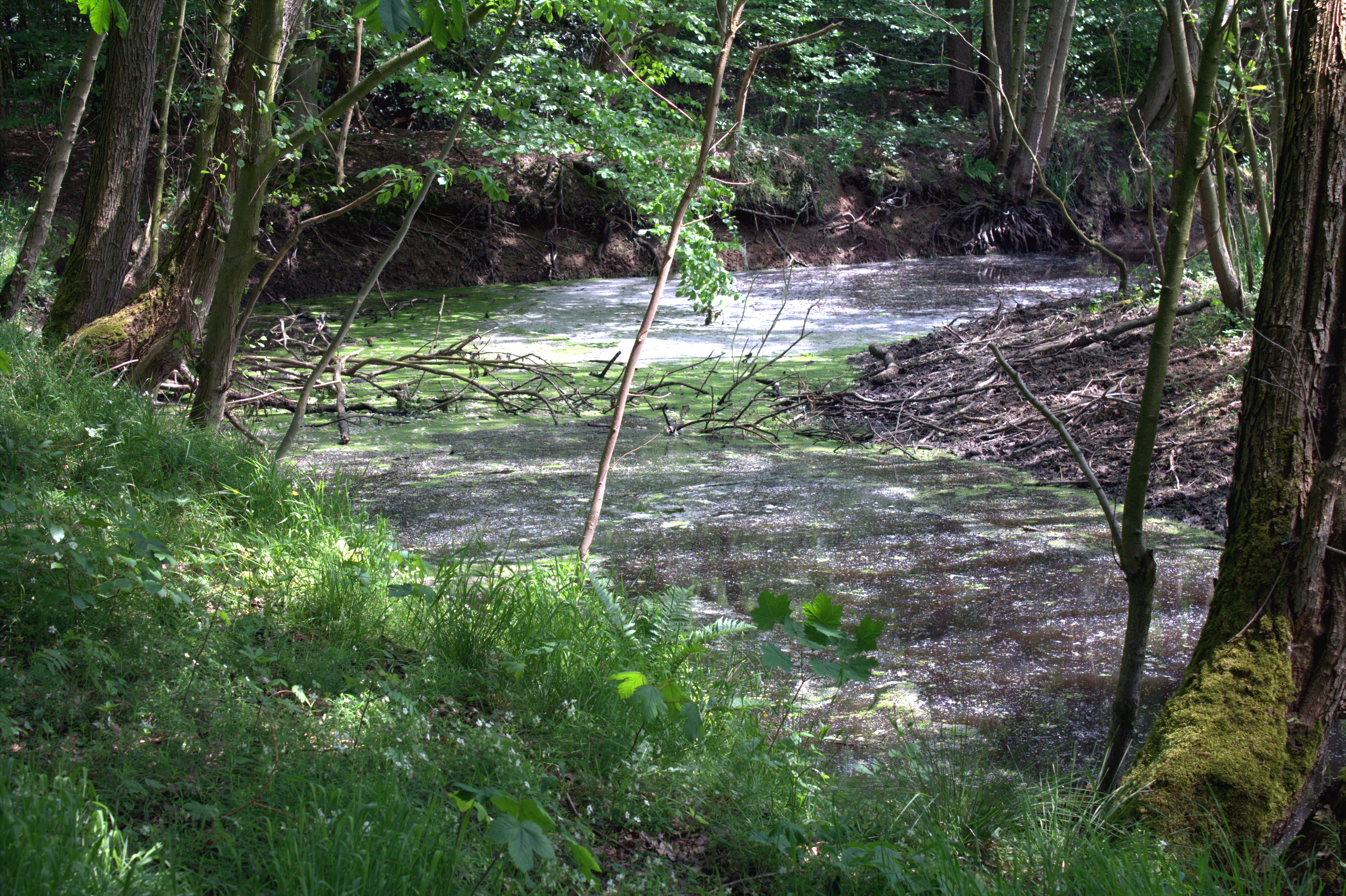 Oxbow lake of the Hunte river in the Barneführerholz forest, Sandkrug village, Hatten municipality, Lower Saxony, Germany.